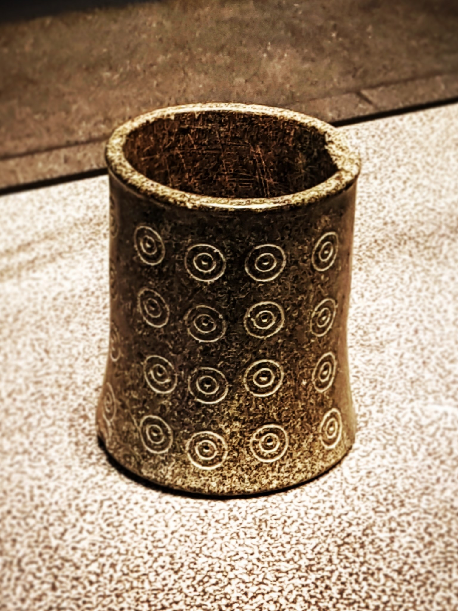 Decorated stone cup from the original Umm Al Nar discovery on Sas Al Nakhl Island, Abu Dhabi. The bottle dates back to 2,000-2,500 BCE. Cups similar to these have been found at other Umm Al Nar era sites around the UAE.